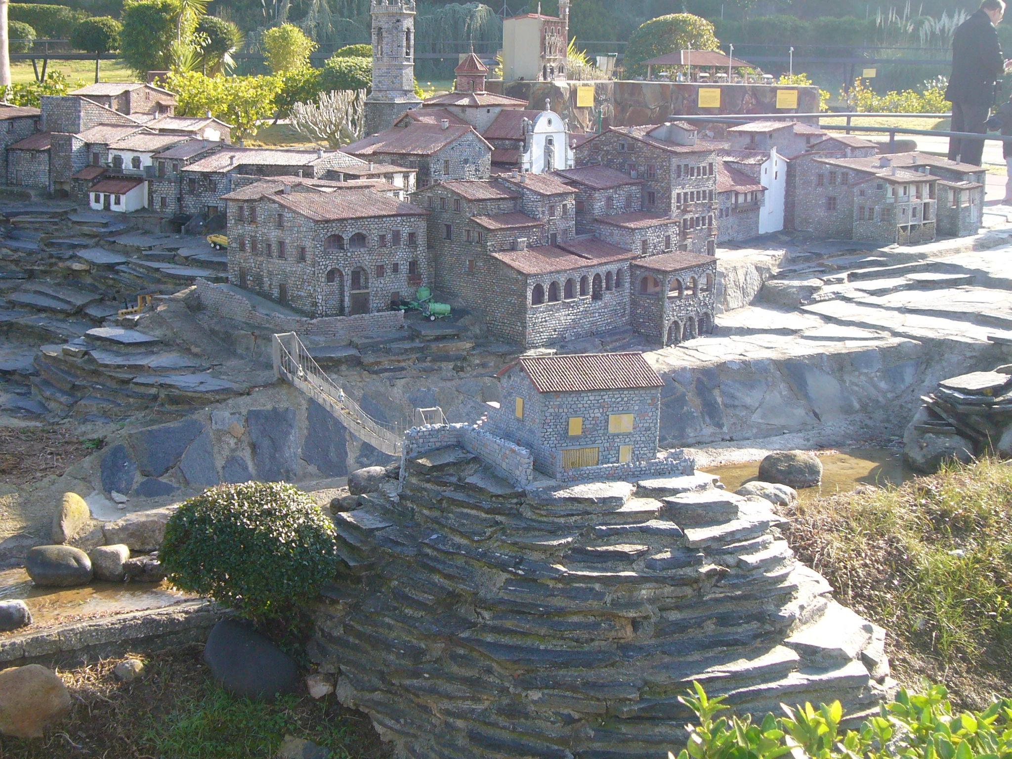 Scale model at the "Catalunya en Miniatura" miniature park : View of Rupit village